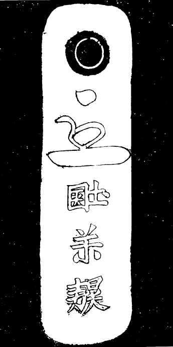 A silver paizi (plaque with an inscription serving as a travel pass or a sign of authority; this one has been interpreted as a sign of authority of a mouke, the chief of a thousand households) with a Jurchen inscription. Found at the Shaigino site (70 km to the north of Nakhodka, Primorsky Krai) in 1976. The inscription in pseudo-small Jurchen script (i.e. large Jurchen script written in blocks in the style of small Jurchen script) reads gurun ni xada-xun, which means "Trust of the Country".